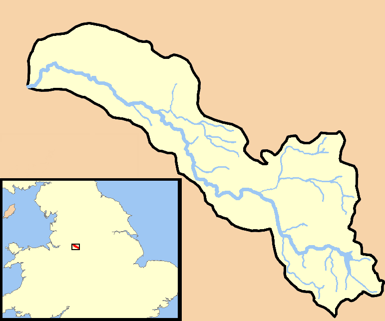 A map showing the catchment area/drainage basin of the River Dean in Cheshire, UK.